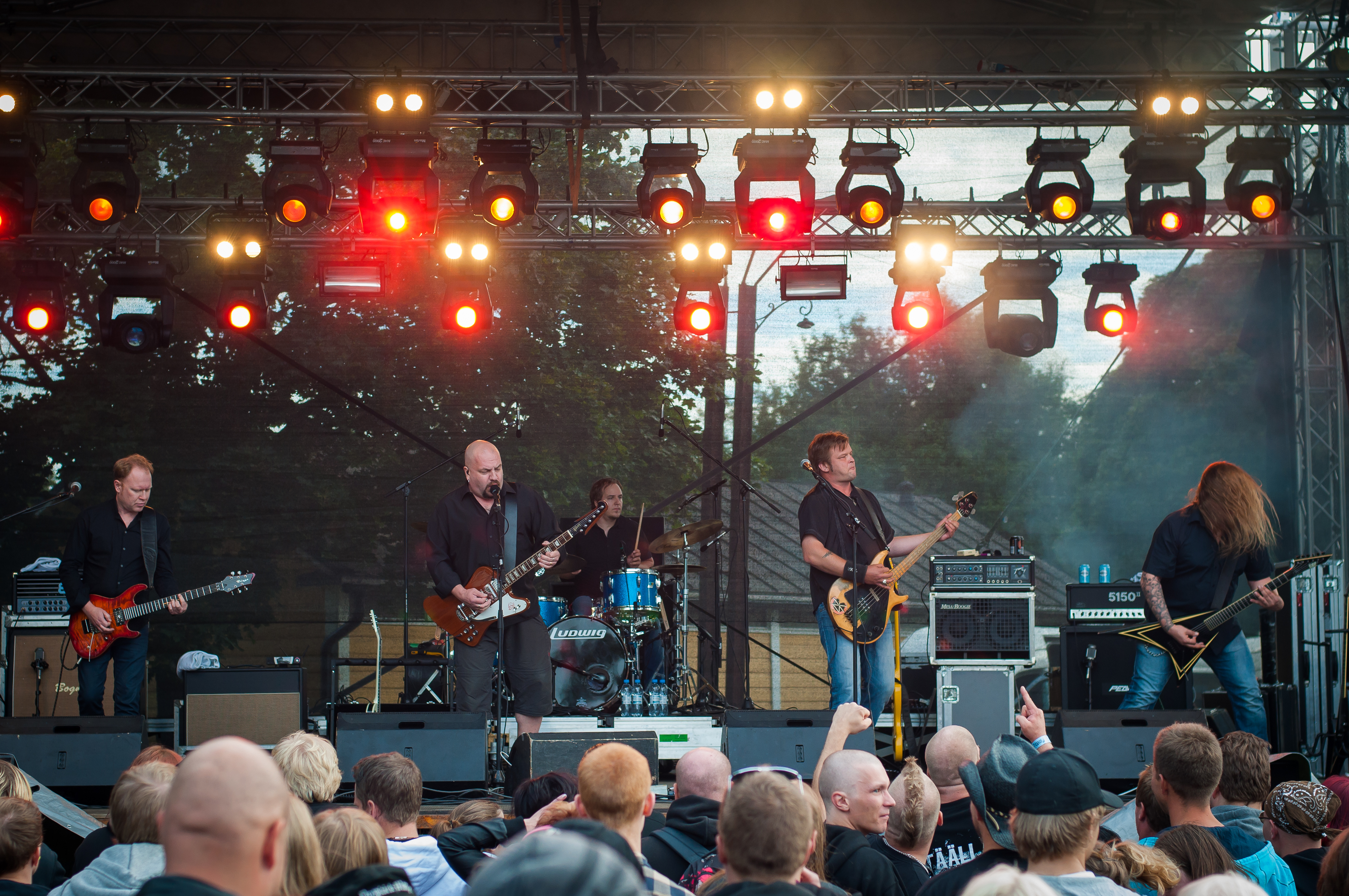 Finnish hard rock band Timo Rautiainen & Neljäs Sektori performing at Rakuunarock festival in Lappeenranta, Finland.